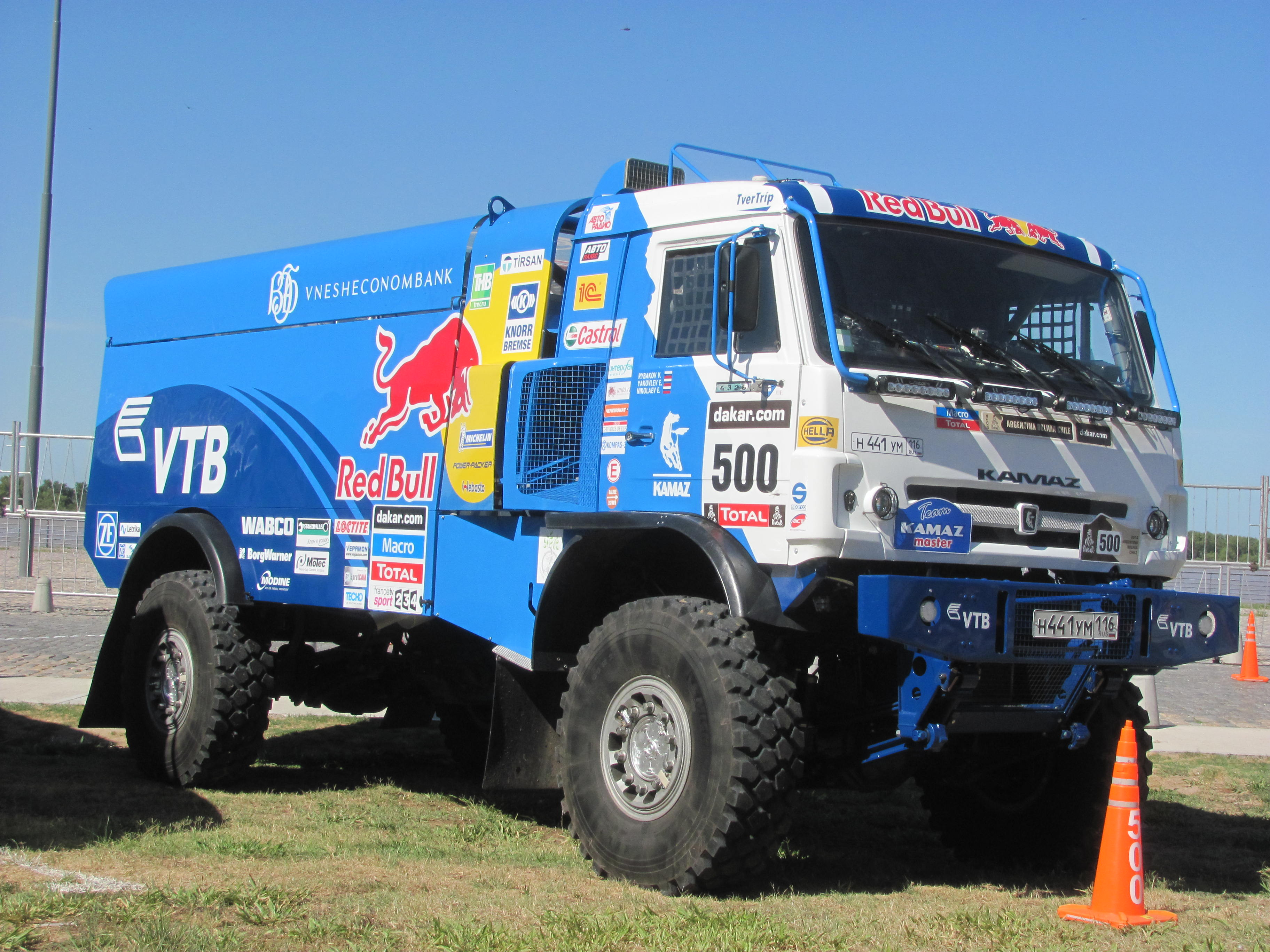 2014 Dakar Rally trucks before the start of the event